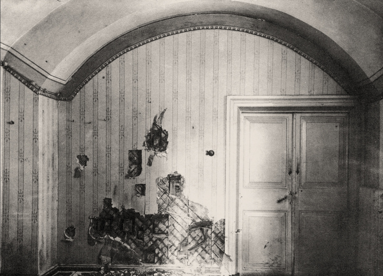 The room where the royal family was shot, the wall has been torn apart in search of bullets and other evidence by investigators following the shooting.